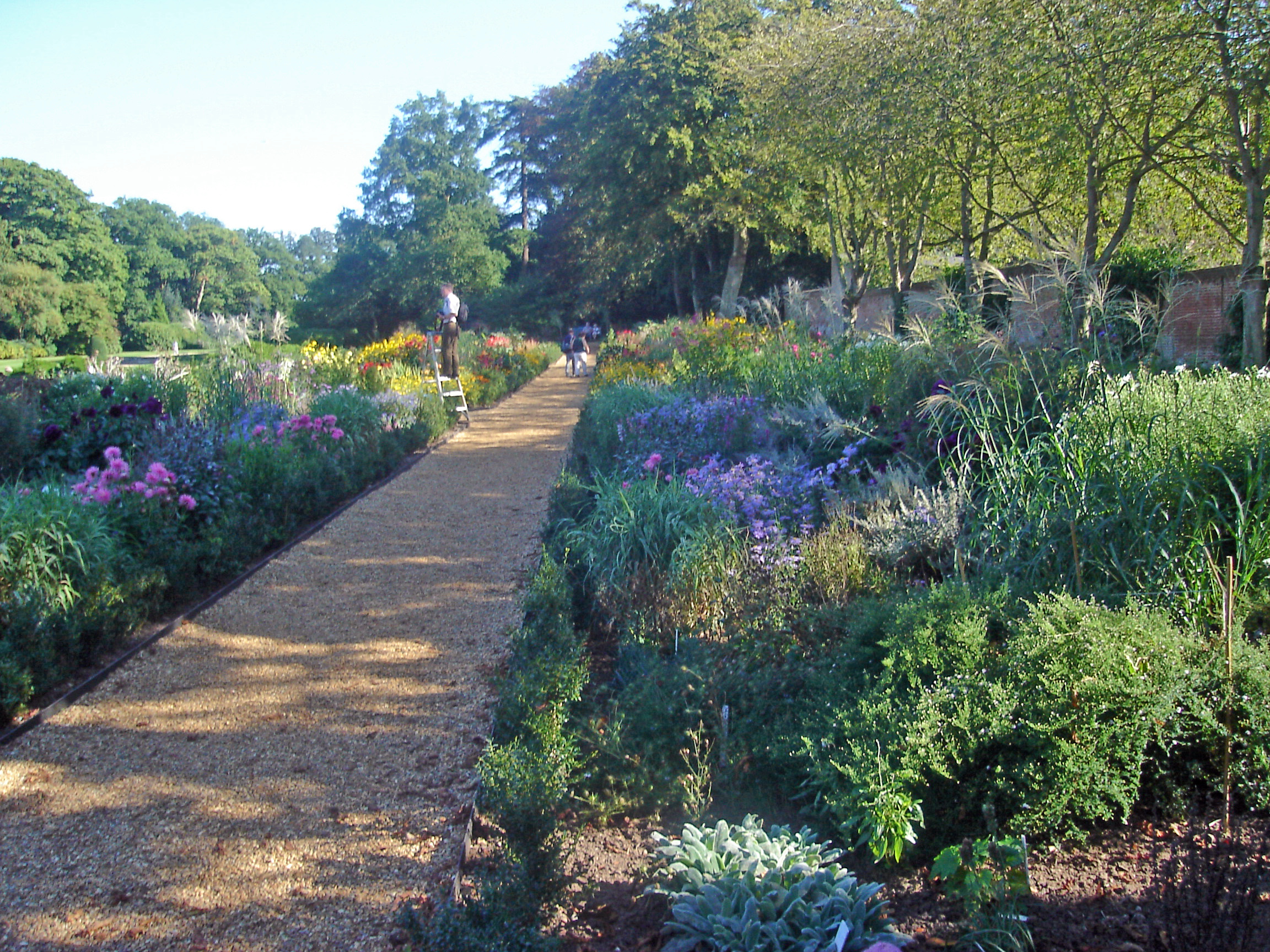 Picture taken of the double borders at Blickling Hall